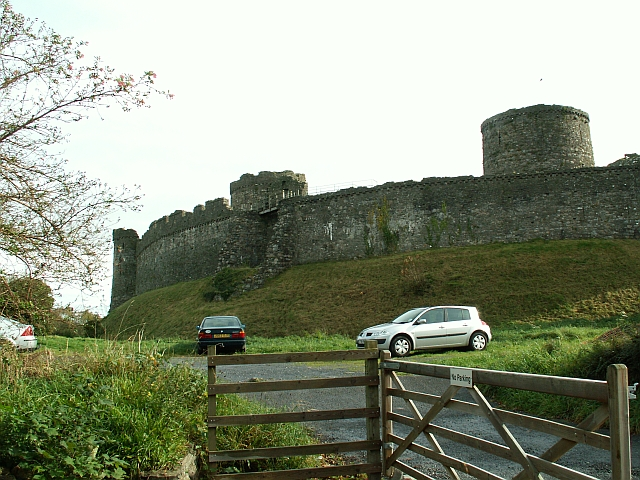 Outer wall of Kidwelly Castle The castle is half-moon shaped and has concentric walls. This view shows the curved outer wall of the west side, which is set on a mound with a ditch around it. Inside are the south west tower (right) and the north west tower (centre) which defend the inner ward. For more information .